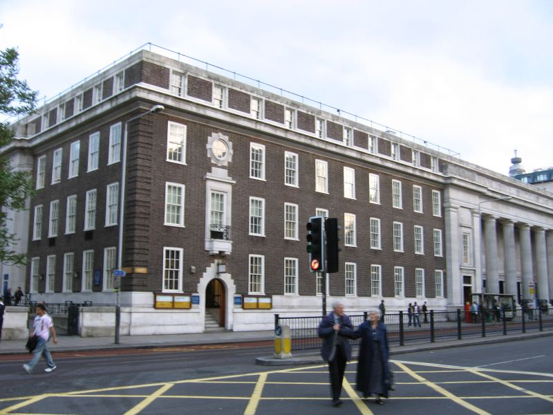 Friends meeting house, 173-177 Euston Road, London NW1 2BJ (opposite Euston Station), the offices for Britain Yearly Meeting.